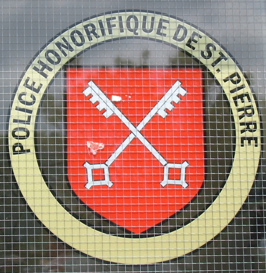 Jersey